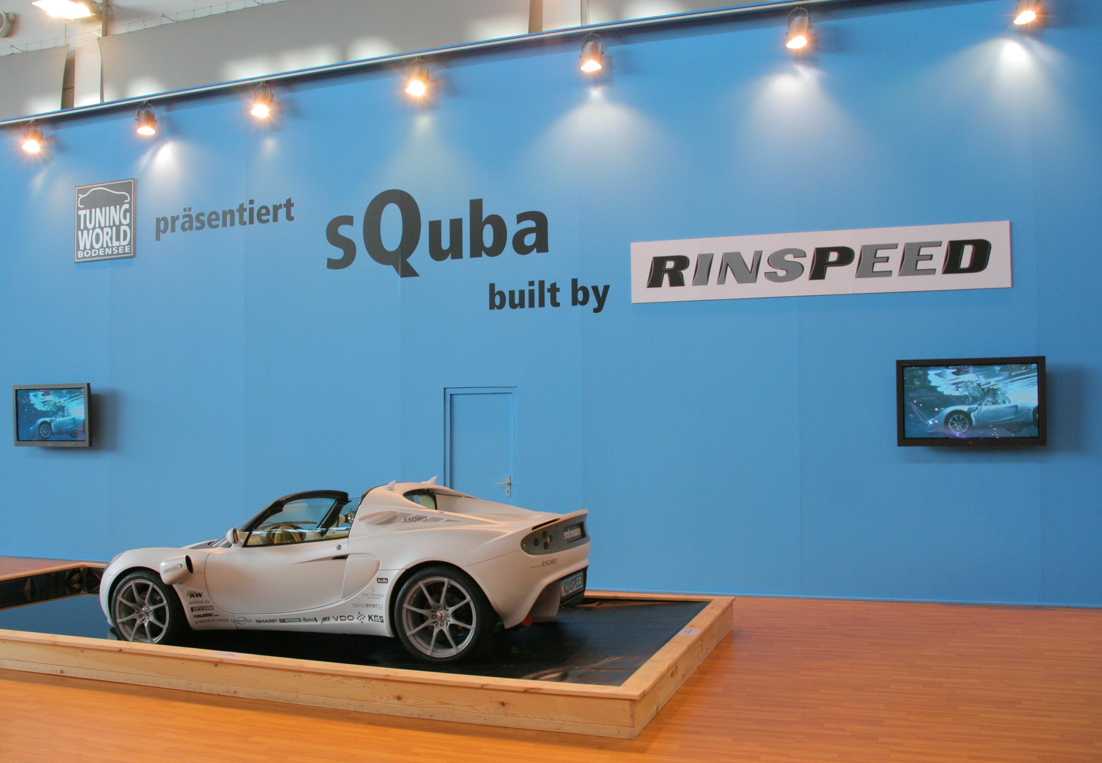 sQuba concept car Exibition Stand at the Tuning World Bodensee 2008